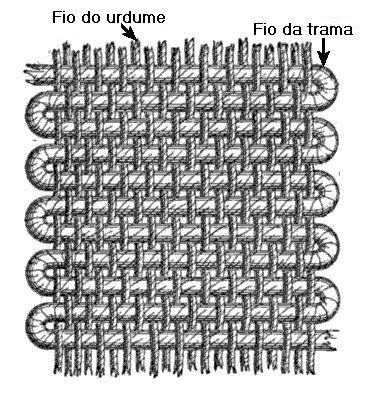 Warp and weft in plain weaving.